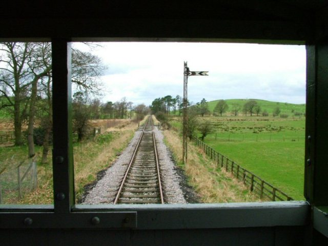 Eden Valley Railway West of Warcop. Lattice signal taken from Eden Valley Railway 'Shark' brake van